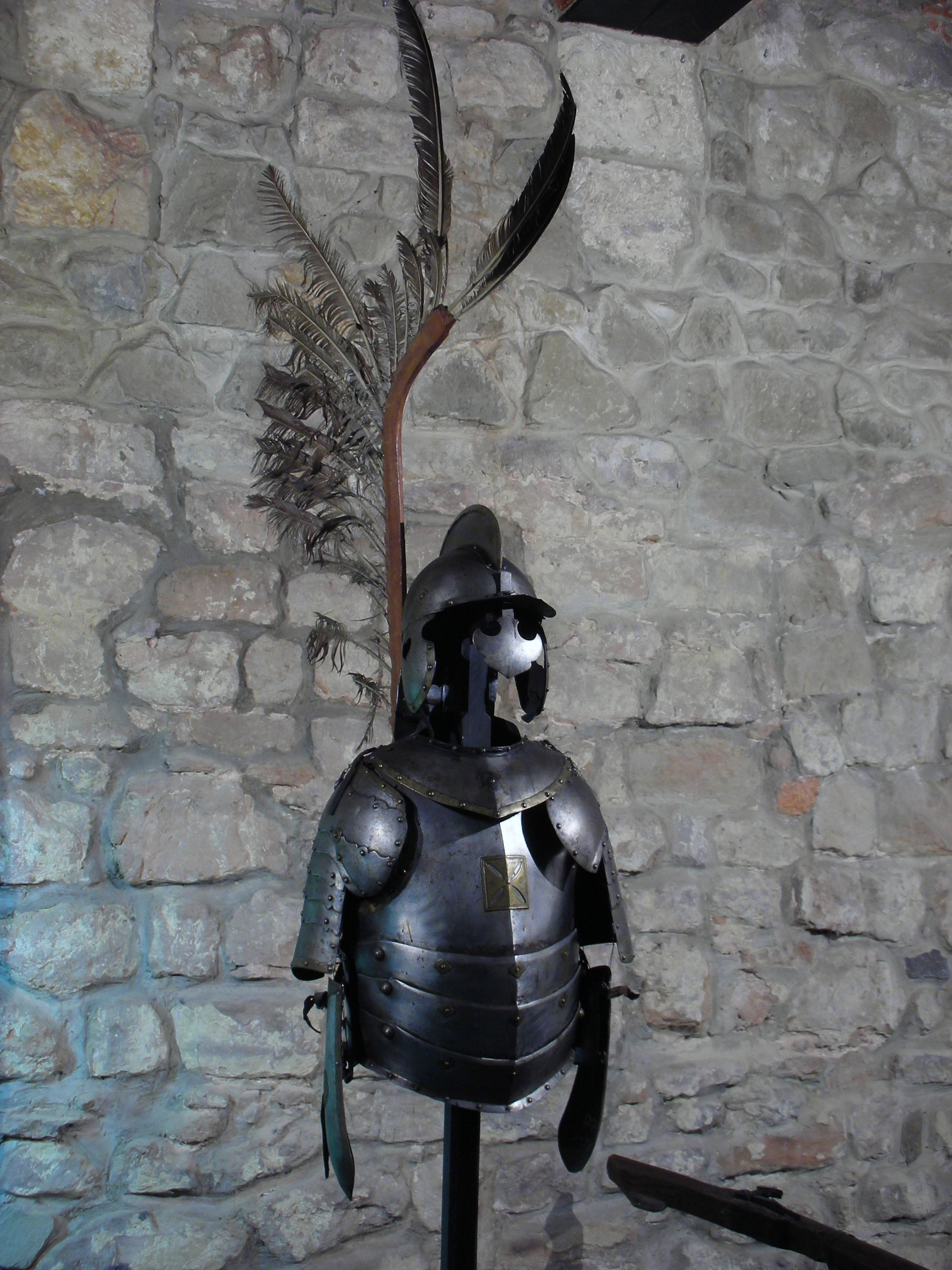 Hussar Armour. "Arsenal" Museum in Lviv (Ukraine).